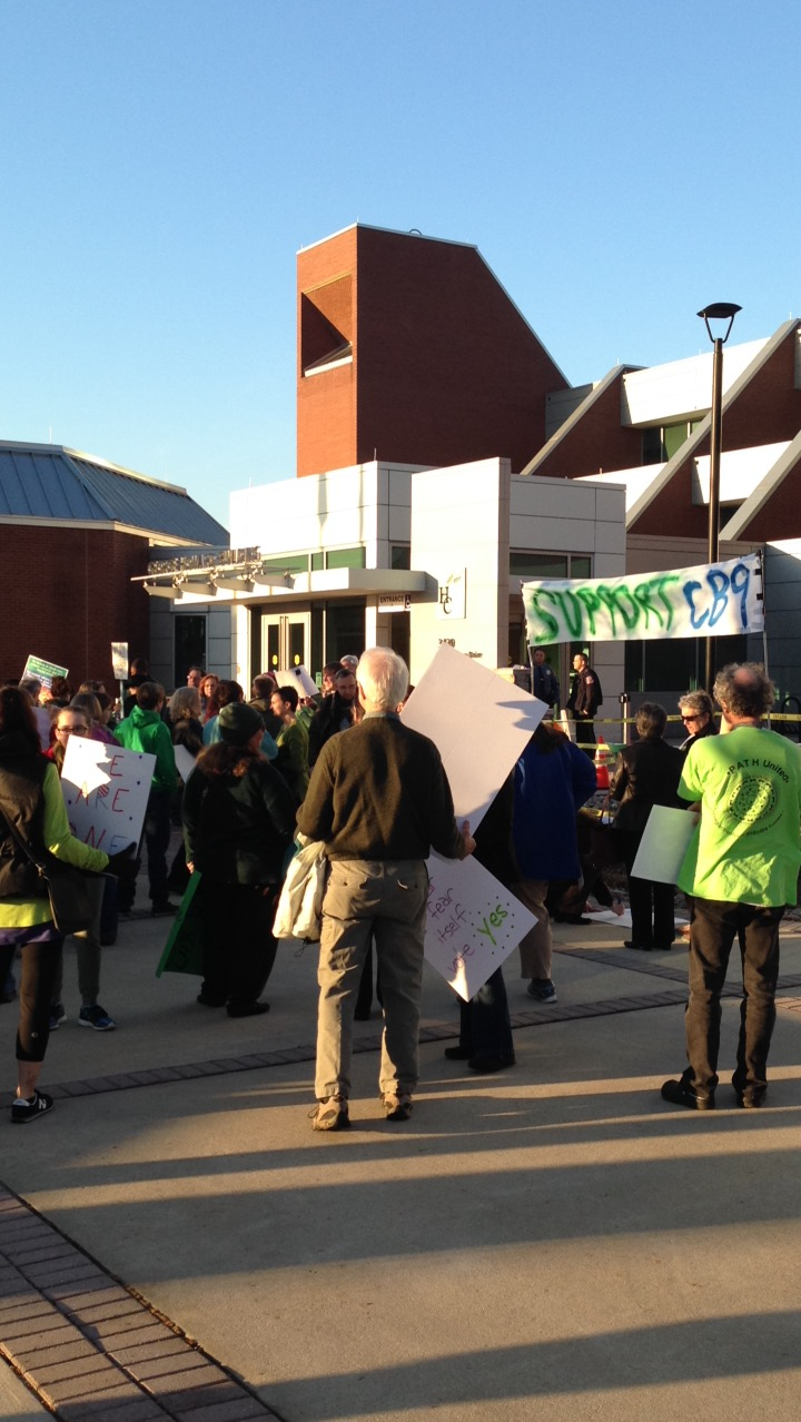 A peaceful protest of proponents for Council Bill 09-2017, which would have made Howard County a sanctuary county in the wake of Donald Trump's presidency.